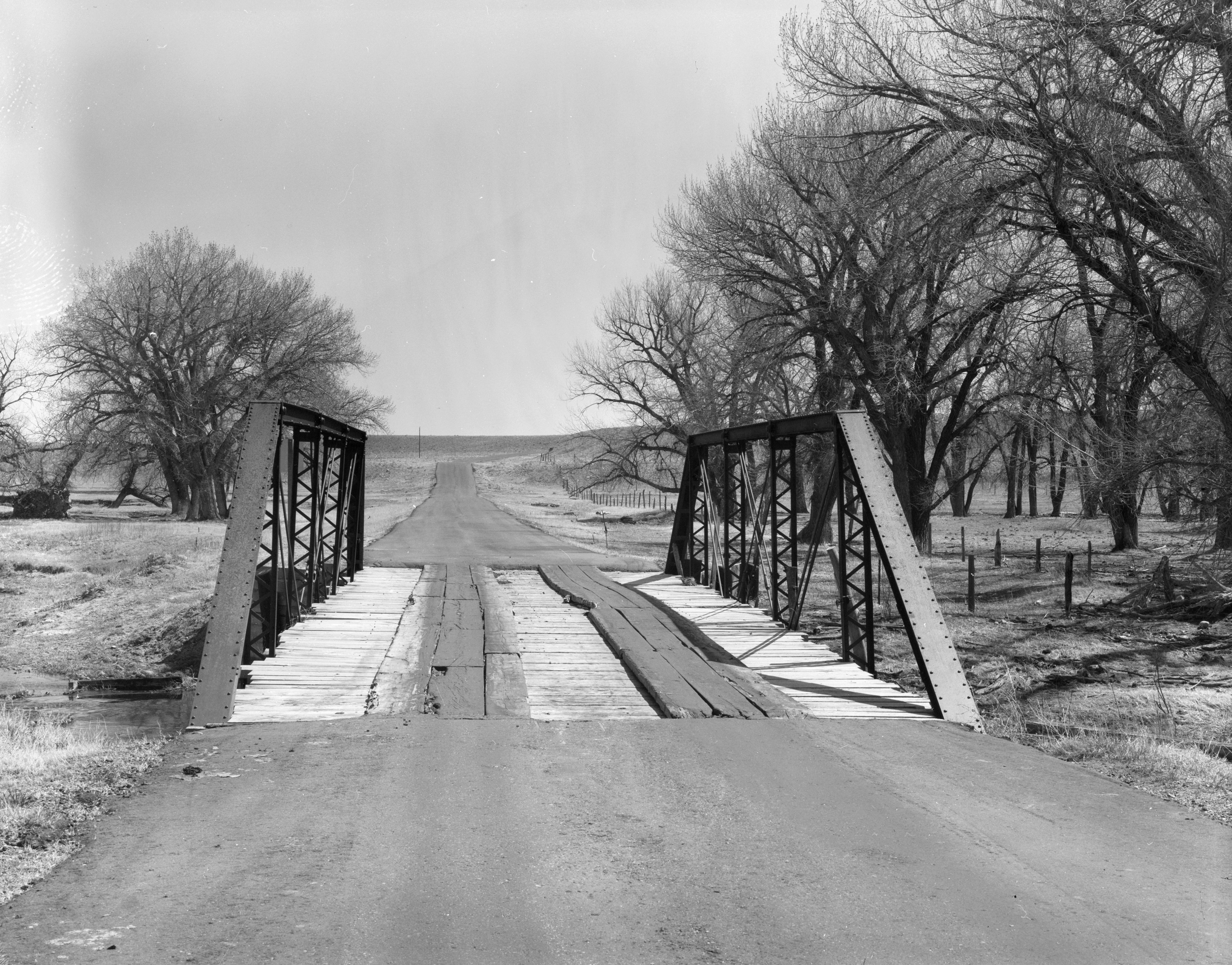 Eastern end of the EWZ Bridge over East Channel of Laramie River, which carries County Road CN8-204 over the East Channel of the Laramie River near Wheatland in Platte County, Wyoming, United States. Built in 1913, this five-panel Pratt pony truss bridge is listed on the National Register of Historic Places.